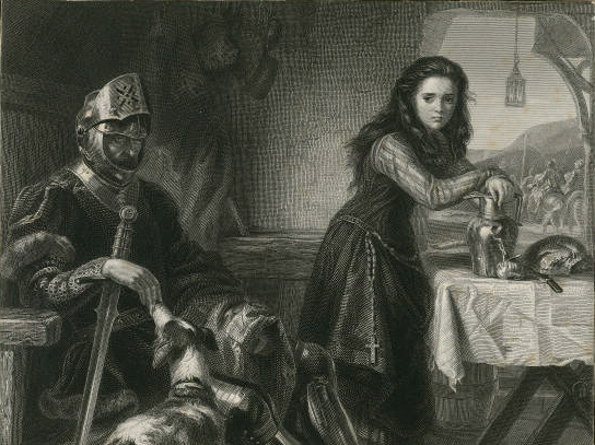 Joan contemplates the situation in Henry VI, Part 1